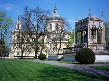 St. Anne’s Church and Potocki mausoleum in Wilanów, Warsaw